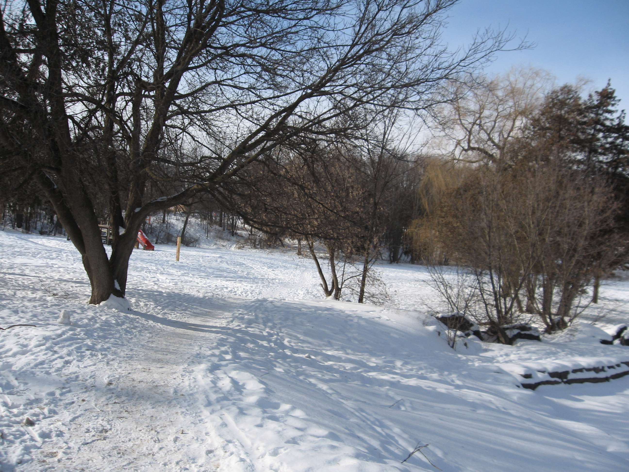 Trans Canada Trail in Peterborough, Ontario, February 3, 2007. Photographer: Wiki-producer